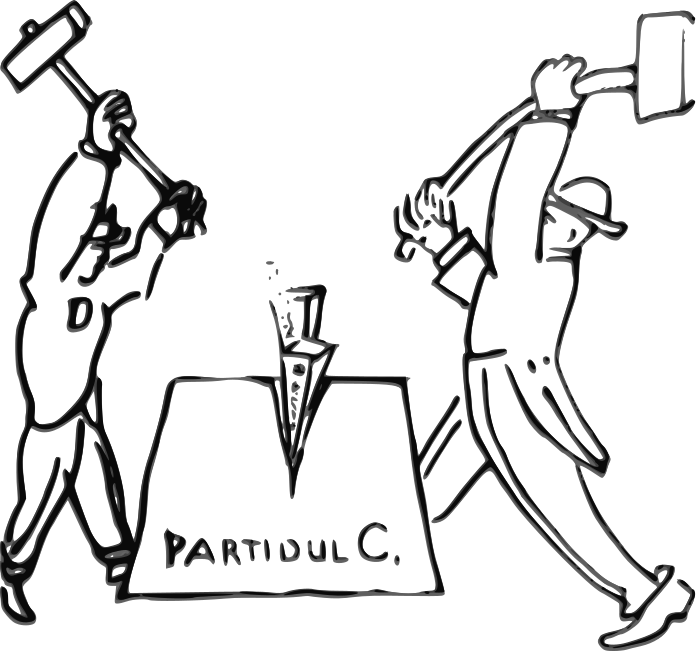 Cartoon depicting factionalists acting against the Communist Party of Romania (PCdR), which is represented as a solid block; wedges refer to "Margules" (Samuel Margules?) and, possibly, "Luximin" (Marcel Pauker). Cartoon by unknown participant at the Fifth PCdR Congress in Gorikovo (outside Moscow), December 1931.